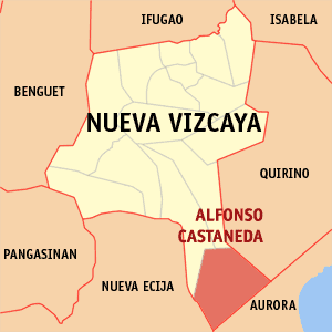 Map of Nueva Vizcaya showing the location of Alfonso Castañeda